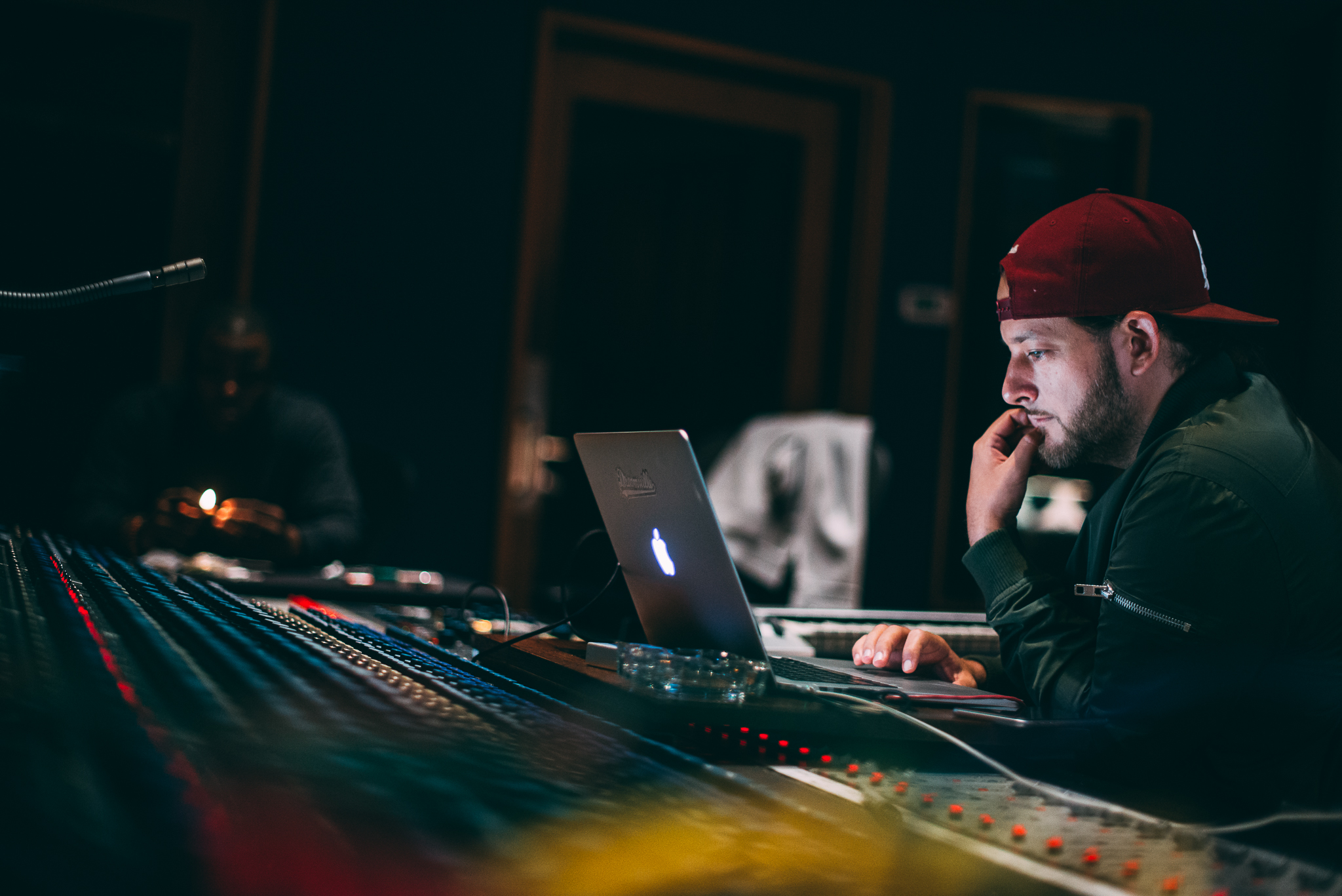 The record producer Elite working in the studio